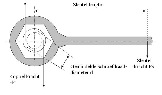 Forces diagram for a wrench.